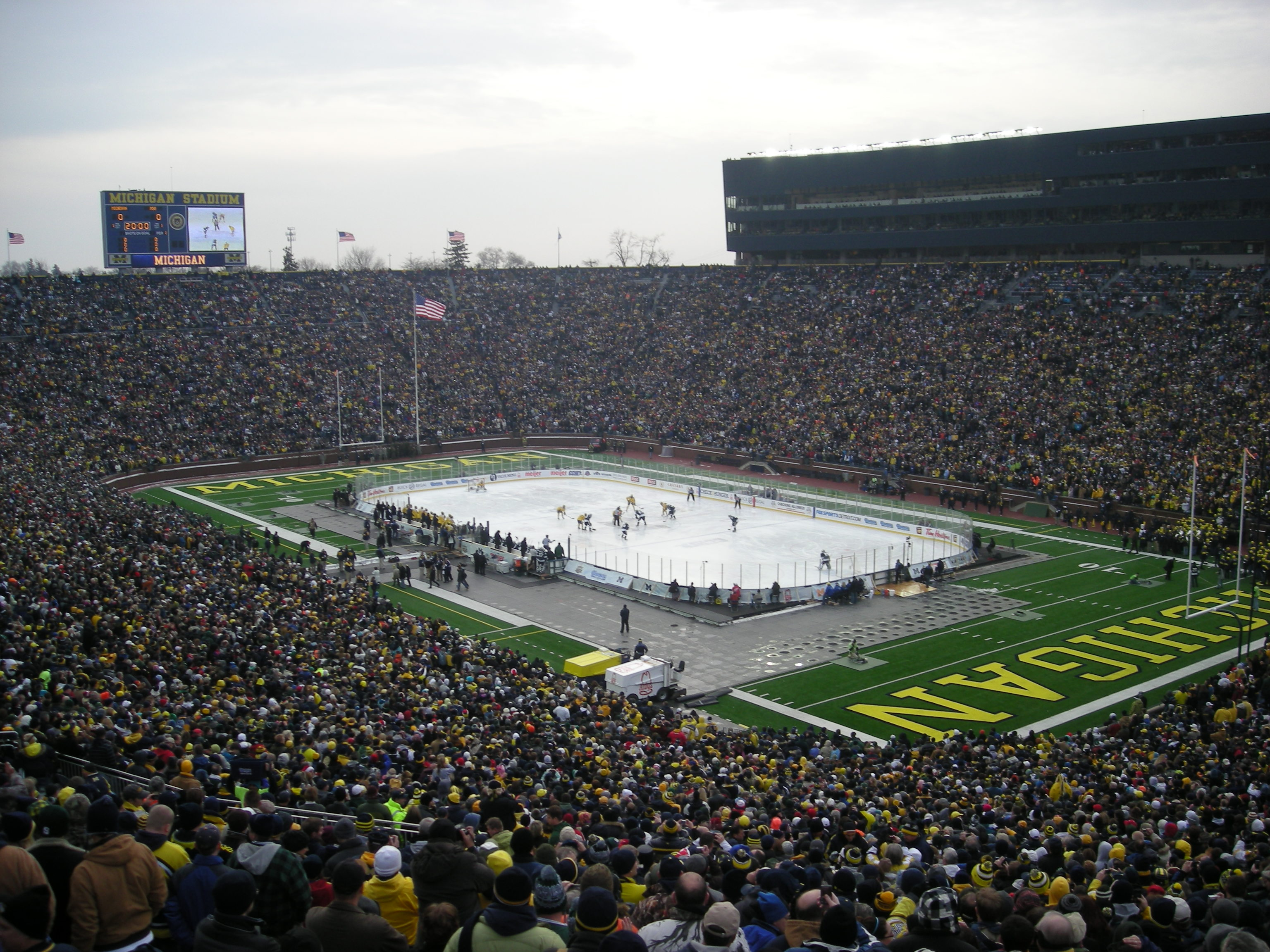 The opening faceoff of the Michigan State Spartans vs. Michigan Wolverines men's ice hockey game at Michigan Stadium in Ann Arbor, Michigan (United States). Michigan won 5–0.